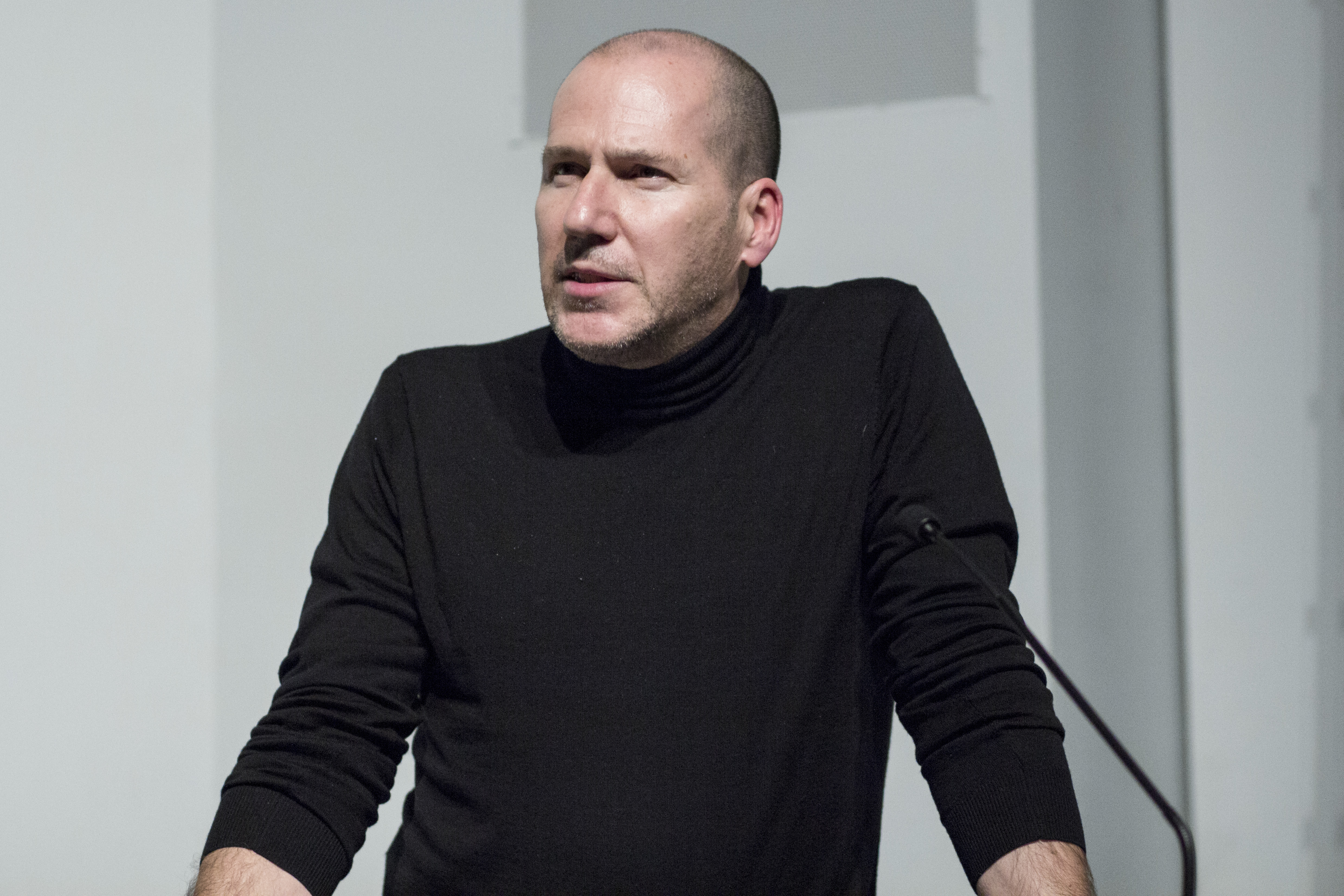 Architect Rem Koolhaas and and graphic designer Irma Boom have a long history of collaboration. In their first joint lecture at Columbia GSAPP, the celebrated designers present Fundamentals, the 14th International Architecture Exhibition of the Venice Biennale—twelve "essential elements" of architecture, ranging from Door and Floor to Toilet and Wall—and how this was graphically conveyed in the Central Pavilion of the Giardini and related series of books. Response by Amale Andraos and Michael Rock.